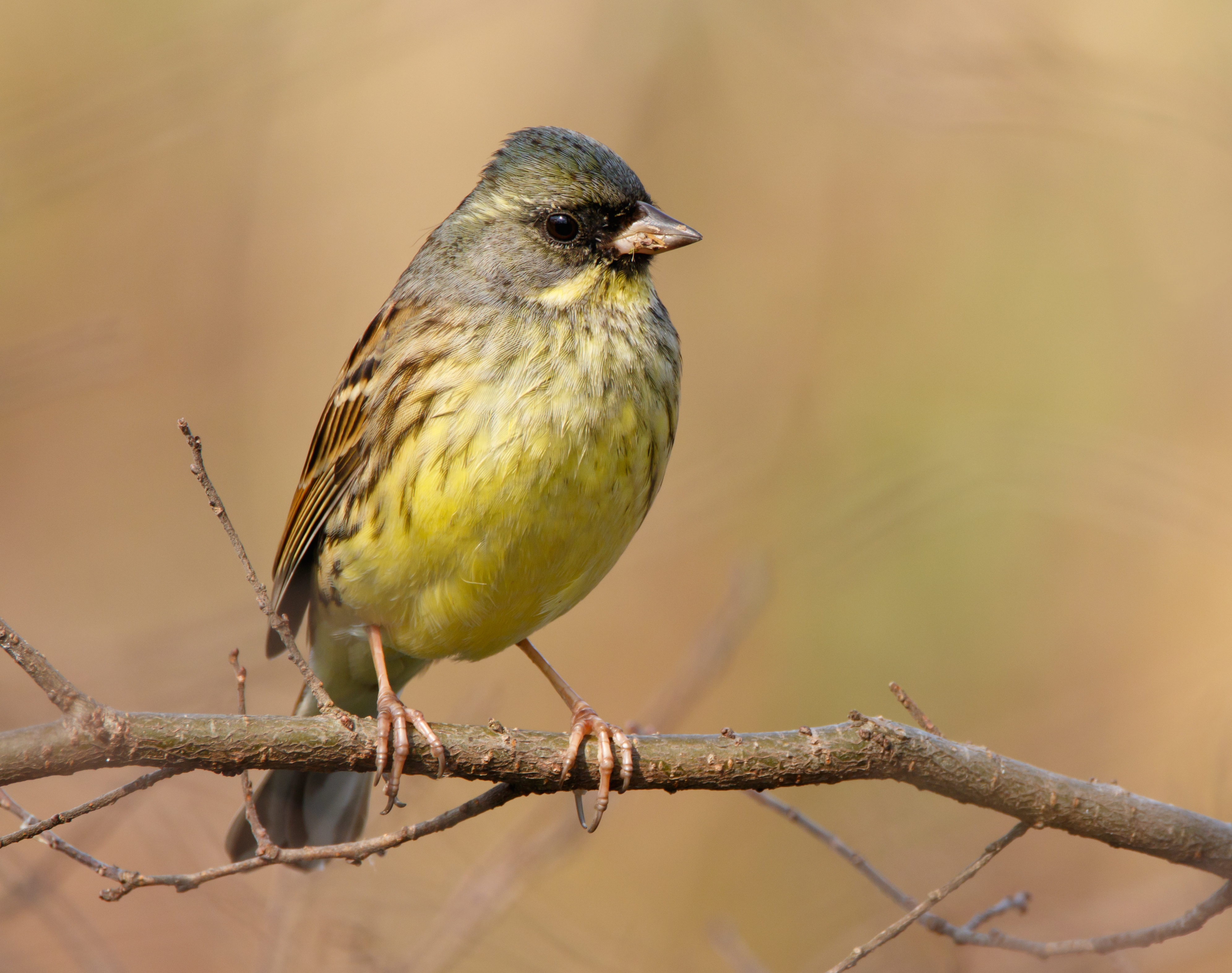 Black-faced bunting in Sakai, Osaka.